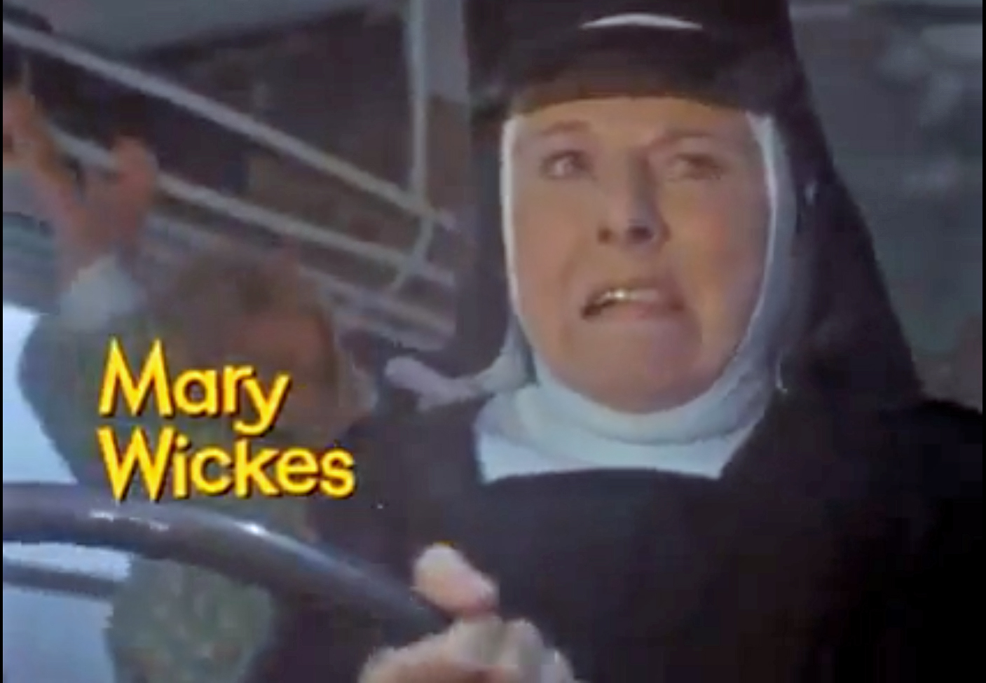 Mary Wickes in trailer for "Where Angels Go, Trouble Follows" (1968)